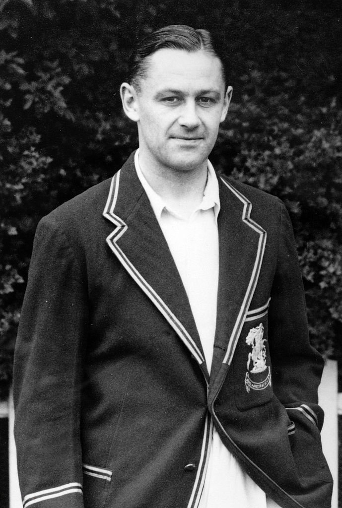 circa 1933, George 'Gubby' Allen, Middlesex and England allrounder, who played in 25 Test matches between 1930-1948